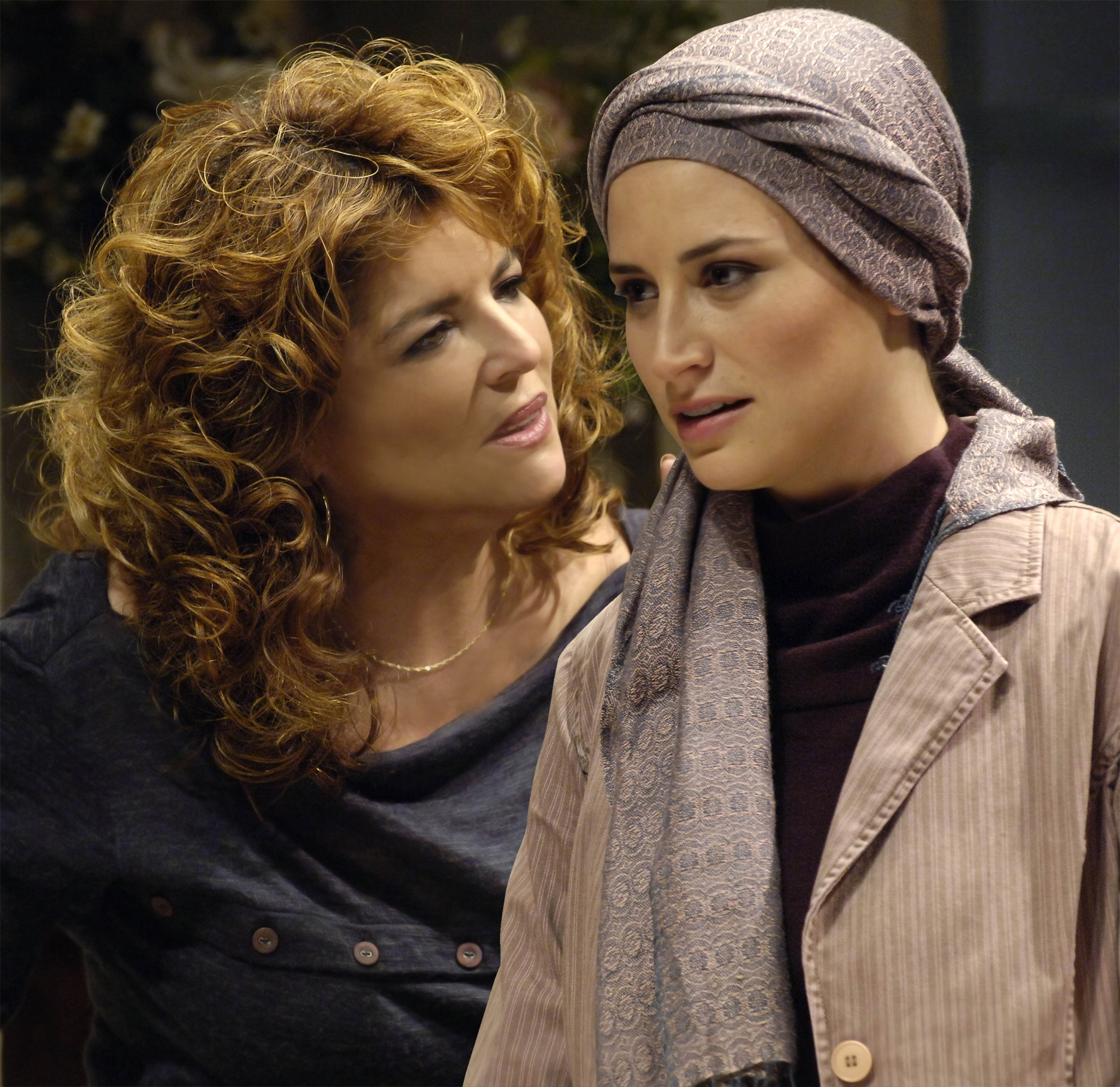 Adi Bielski & Yona Elian in Beit Lessin Theater's "Alma & Ruth", written by Goren Agmon, directed by Mikha Levinson.